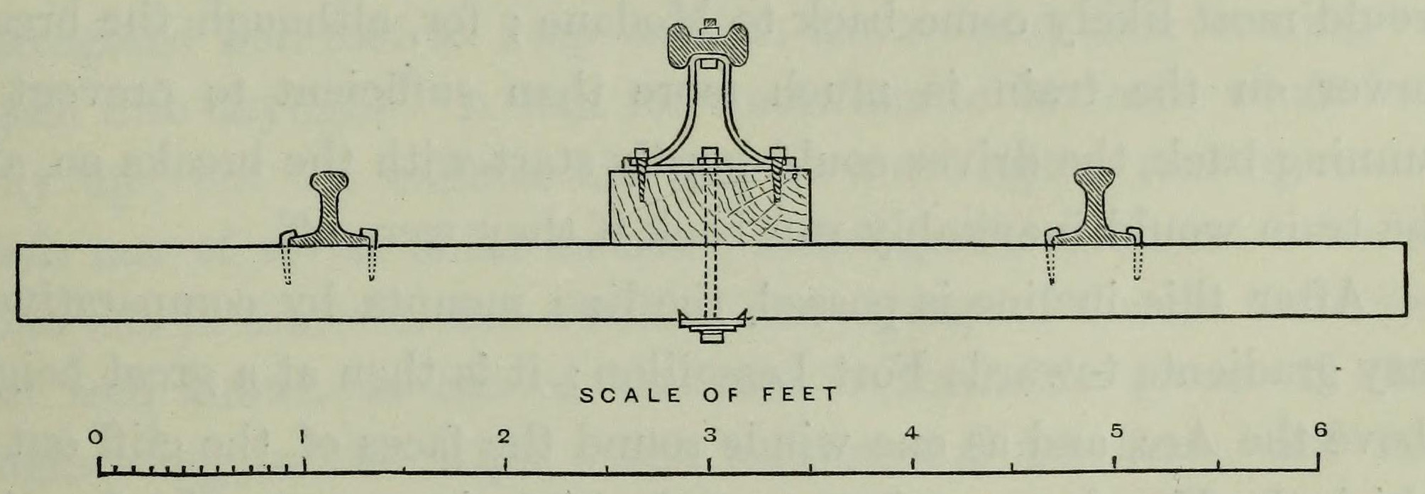 Image on page 77 of Scrambles amongst the Alps